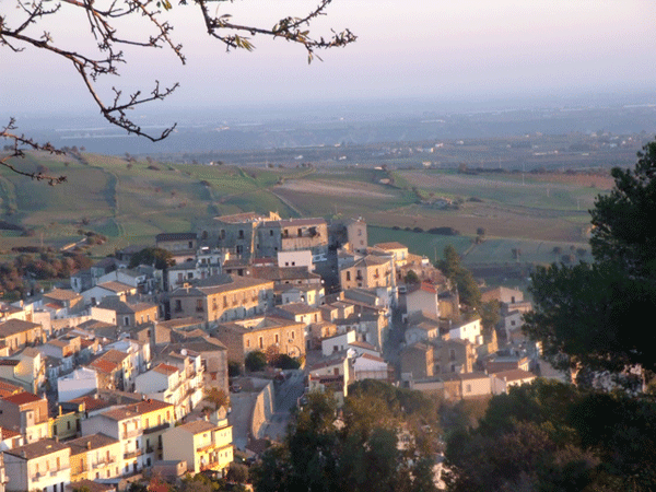 Nova Siri